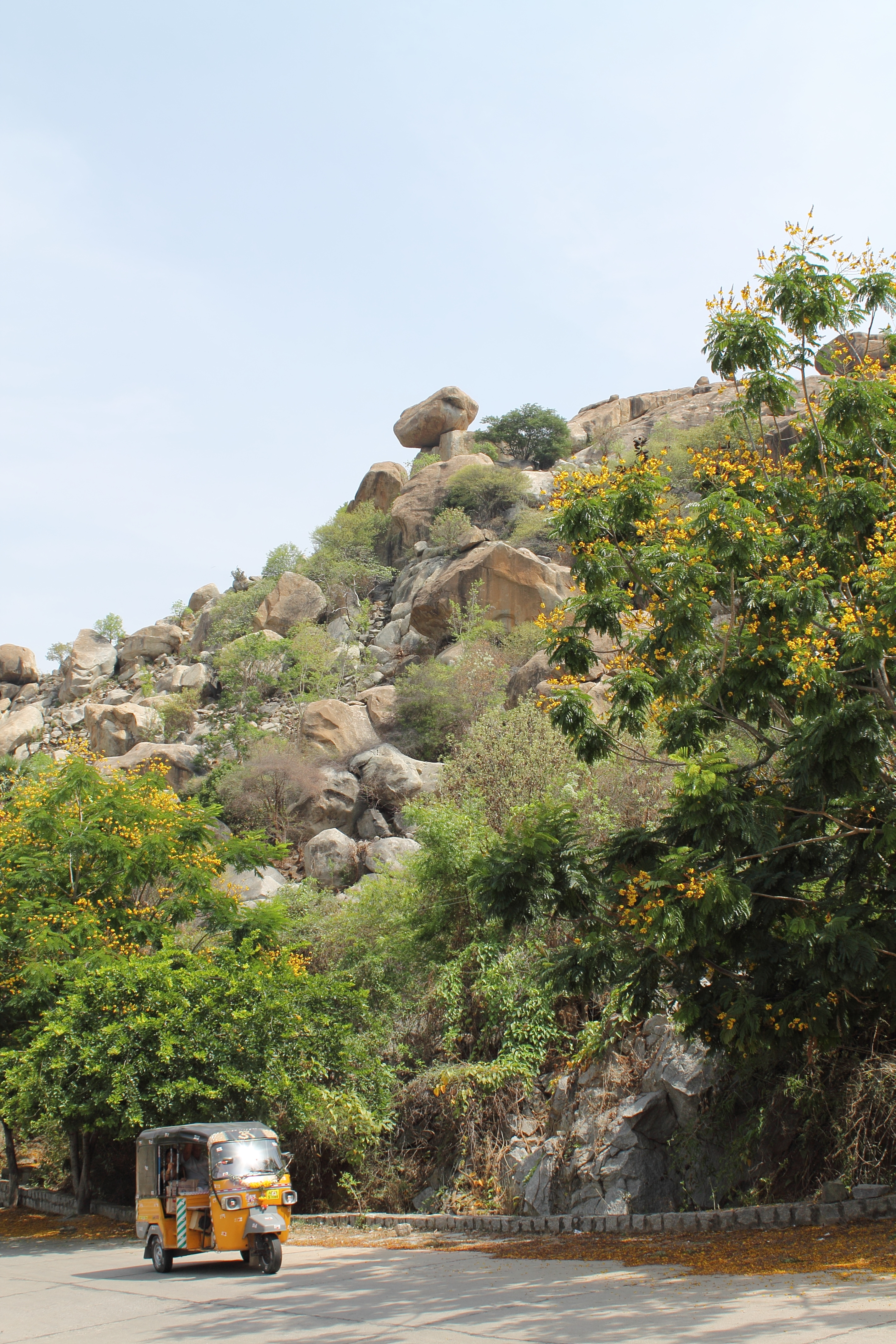 Pathway on the Ardhagiri Hill, showing autorikshaw taking passengers to Temple